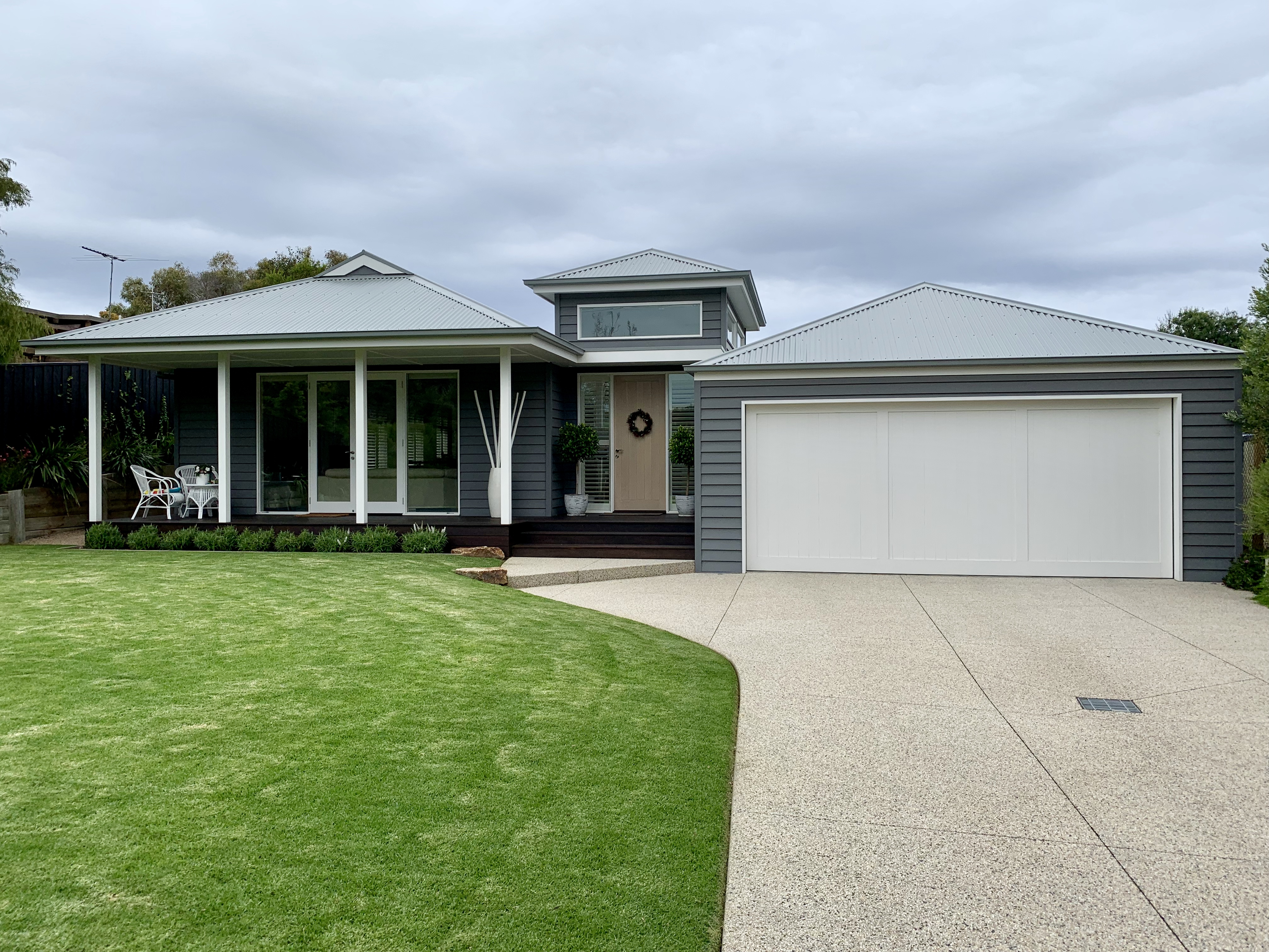 House and the front yard in Blairgowrie, Victoria